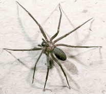 The brown recluse spider (Loxosceles reclusa). There are several members of this genus that are even more venomous.